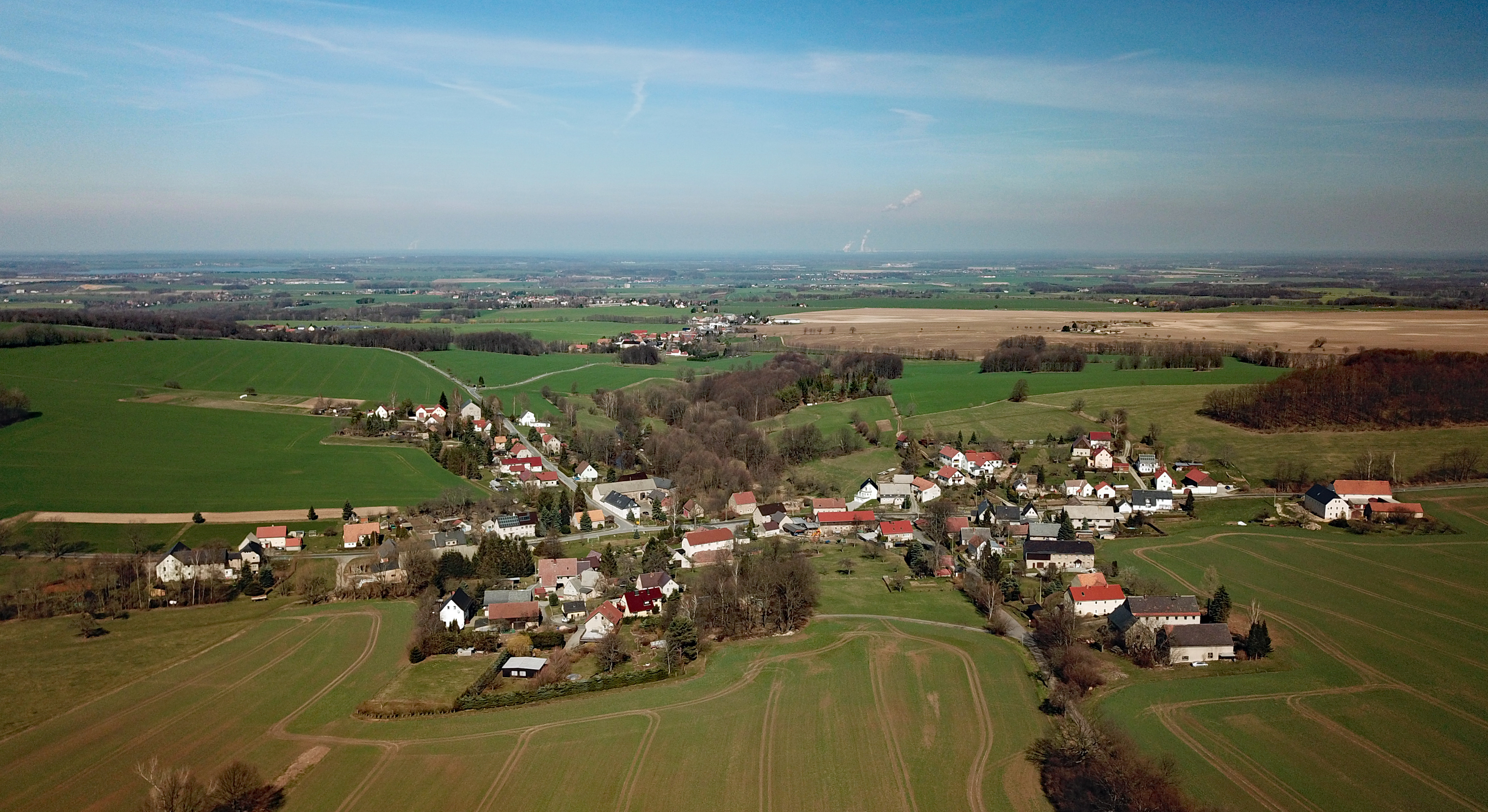 Rachlau (Kubschütz, Saxony, Germany) Hornjoserbsce: Powětrowy wobraz Rachlowa pod Čornobohom Dieses Foto wurde mit einem Quadcopter innerhalb der RMZ des Flugplatzes EDAB aufgenommen. Der Flugleiter wurde am Aufnahmetag telephonisch über Ort und Zeit informiert und hat zugestimmt. Der Flug erfolgte auf Grundlage der Allgemeinverfügung der Landesdirektion Sachsen zur Erteilung der Betriebserlaubnis für unbemannte Luftfahrtsysteme und Flugmodelle gemäß § 21a LuftVO und Zulassung von Ausnahmen von Betriebsverboten gemäß § 21b LuftVO für den Freistaat Sachsen.